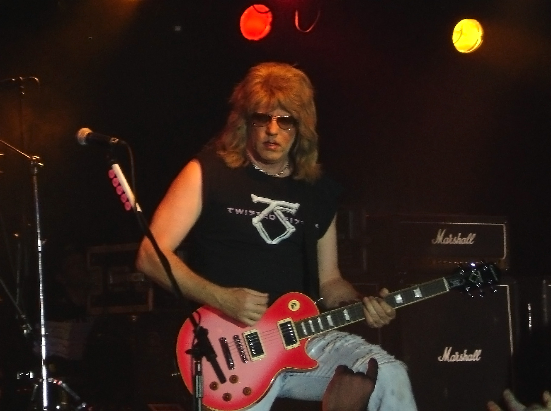 Jay Jay French of Twisted Sister